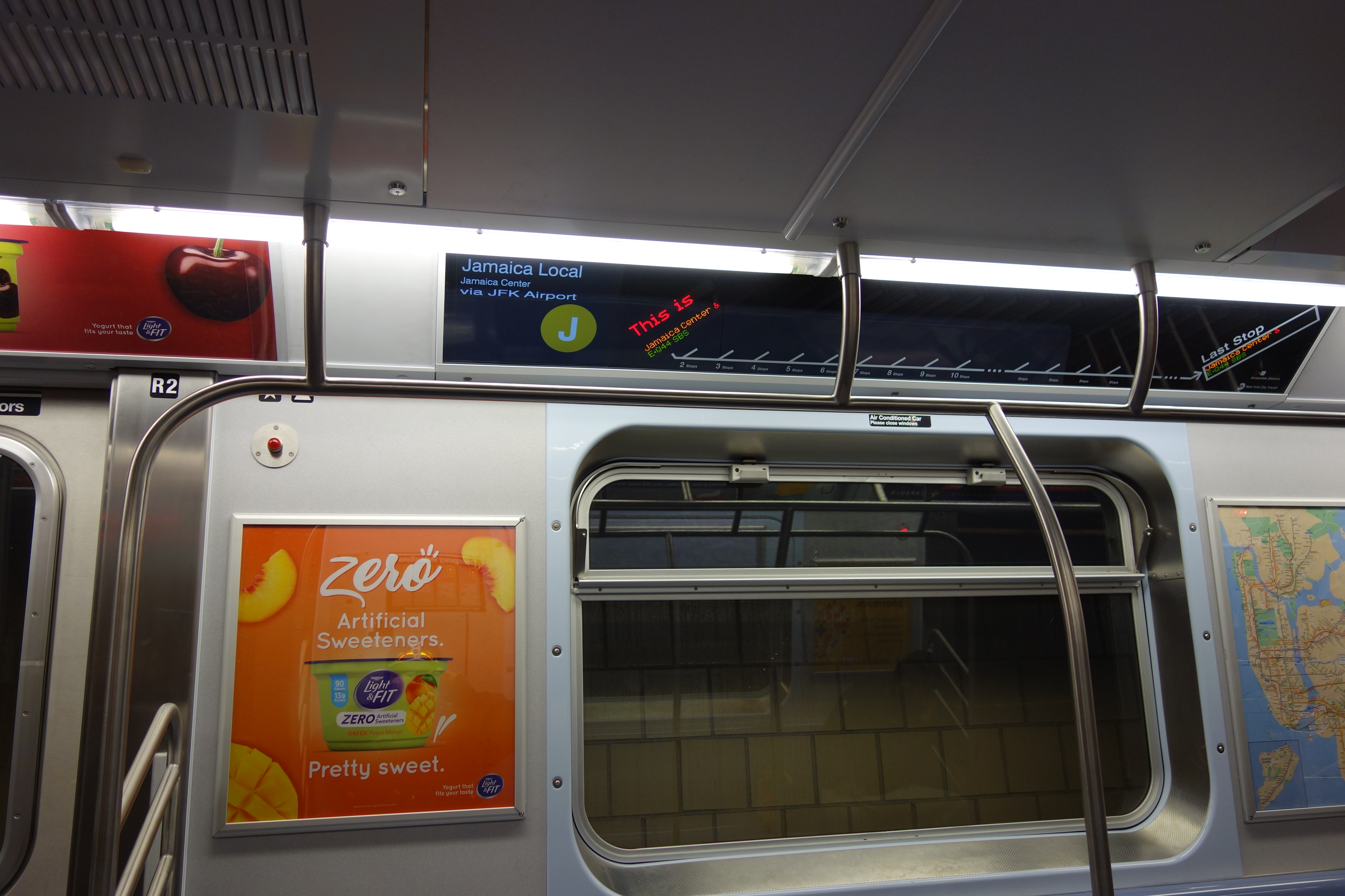 Inside the new R179 subway cars in J service, at the Jamaica Center – Parsons/Archer station in Jamaica Center, Queens.